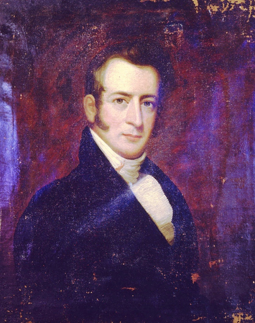 John Owen, 1828 - 1830 From the General Negative Collection, State Archives of North Carolina, Raleigh, NC.